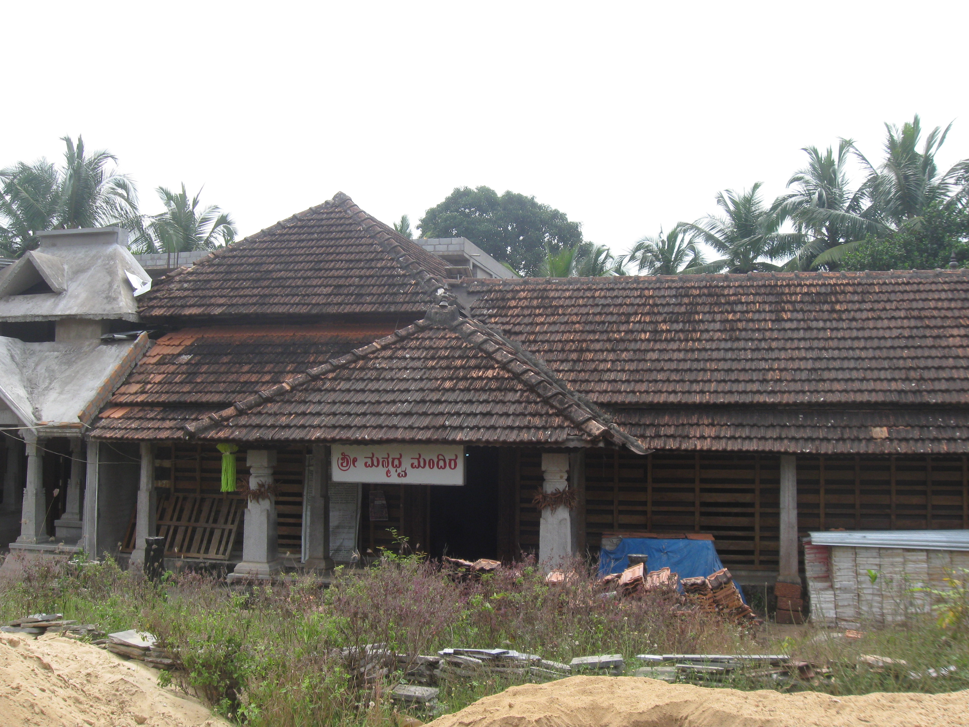 This is a photo of the temple where the idol of Sri Madhvacharya is installed. The place is where the impression of his feet were found.